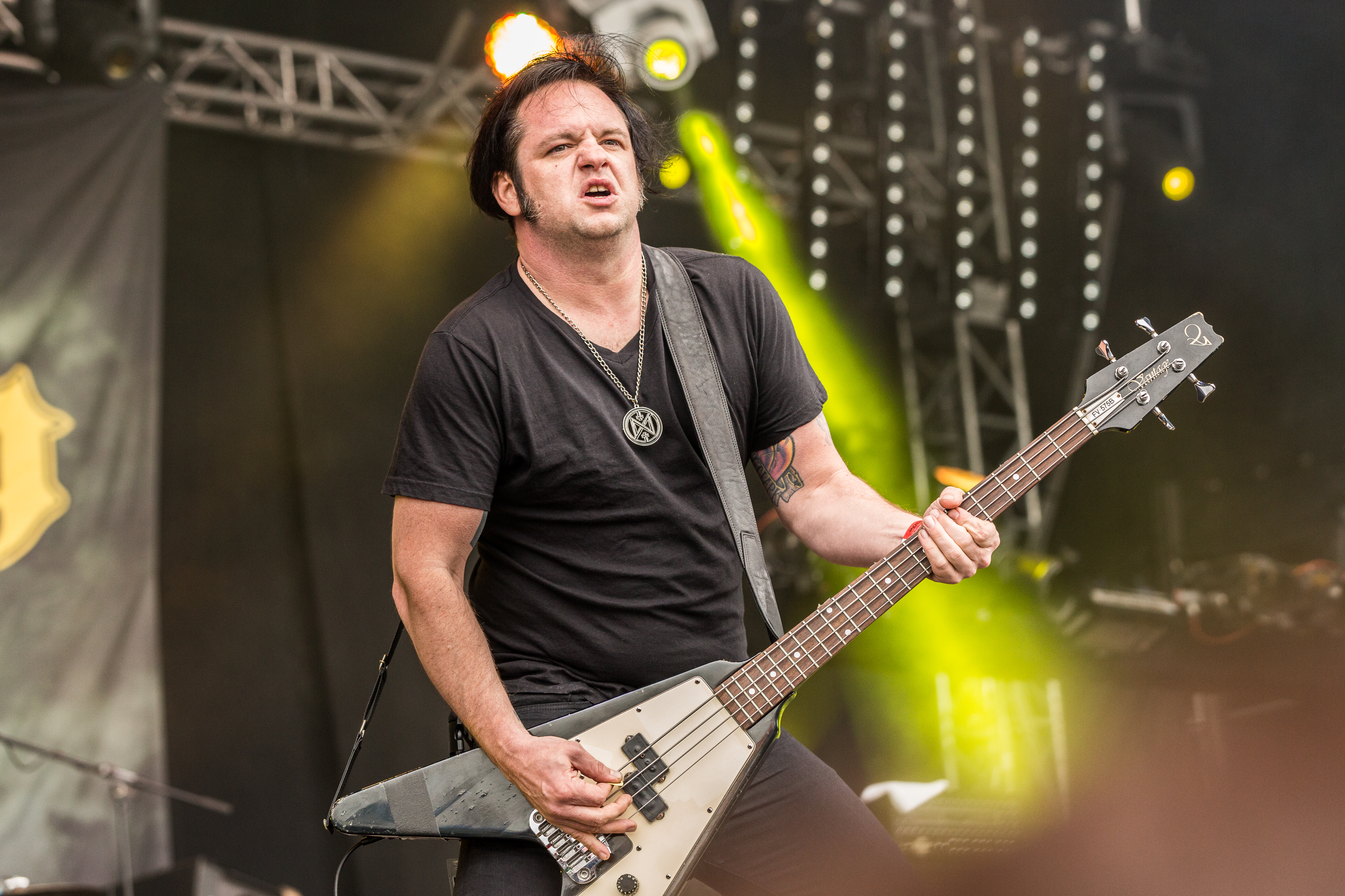 The American heavy metal band Night Demon at the Party.San Metal Open Air 2016 in Obermehler-Schlotheim/Germany.